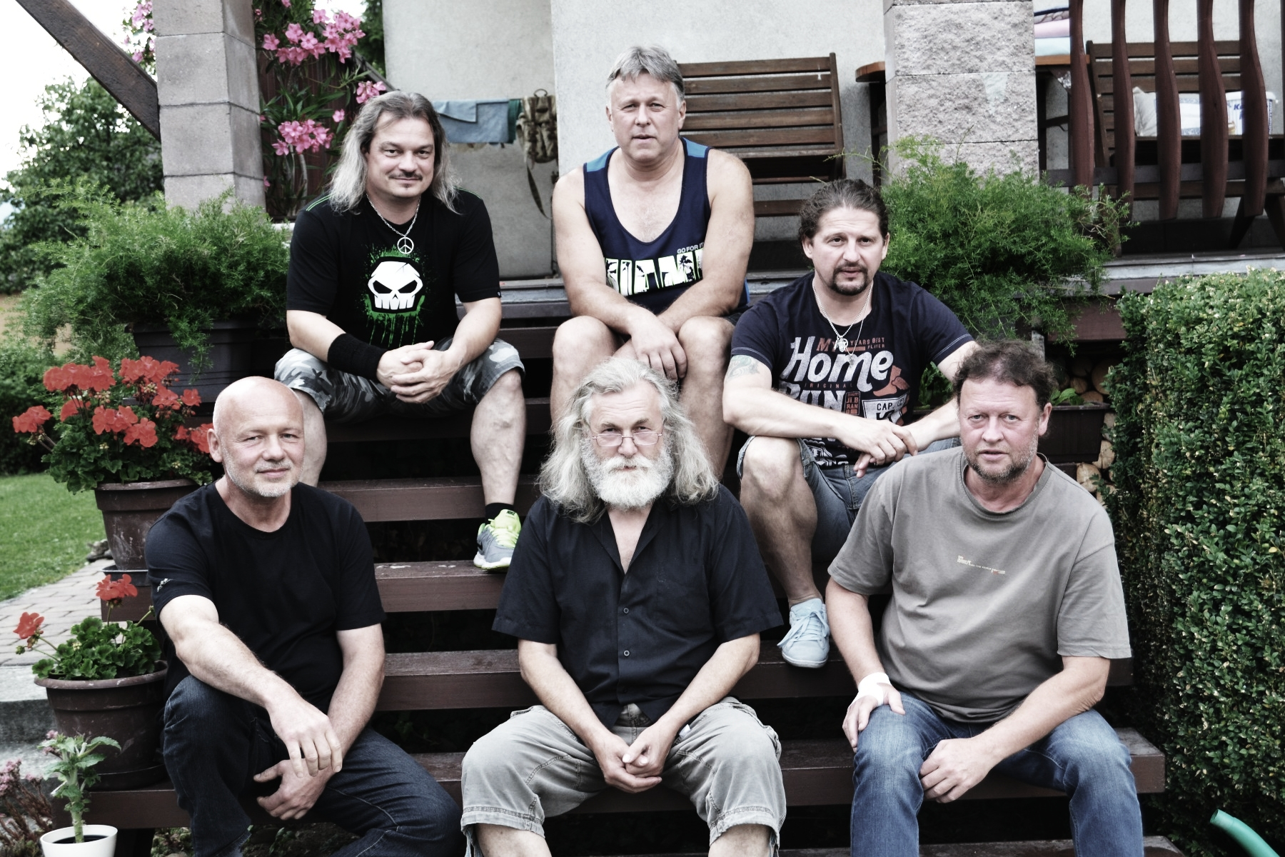 Bidon na zkoušce 2016